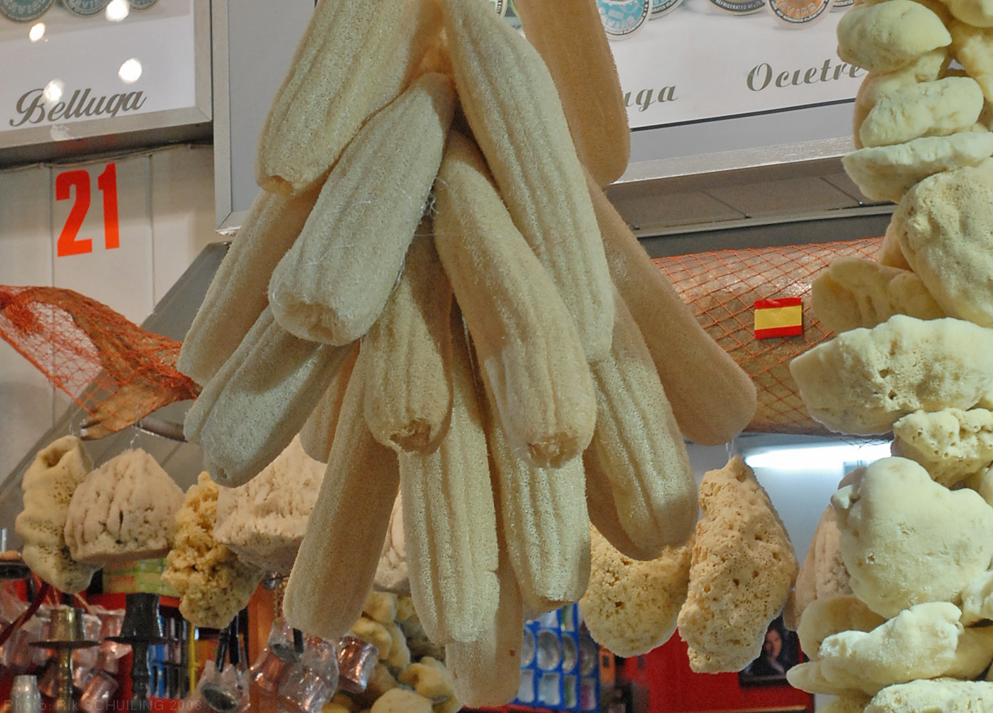 Sponges made of sponge gourd for sale alongside sponges of animal origin (Spice Bazaar at Istanbul, Turkey, September 2008).